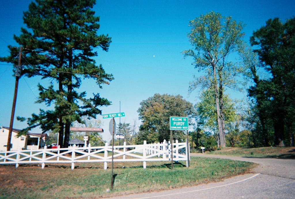 Purdy, Tennessee. I made the photo myself, feel free to use it.